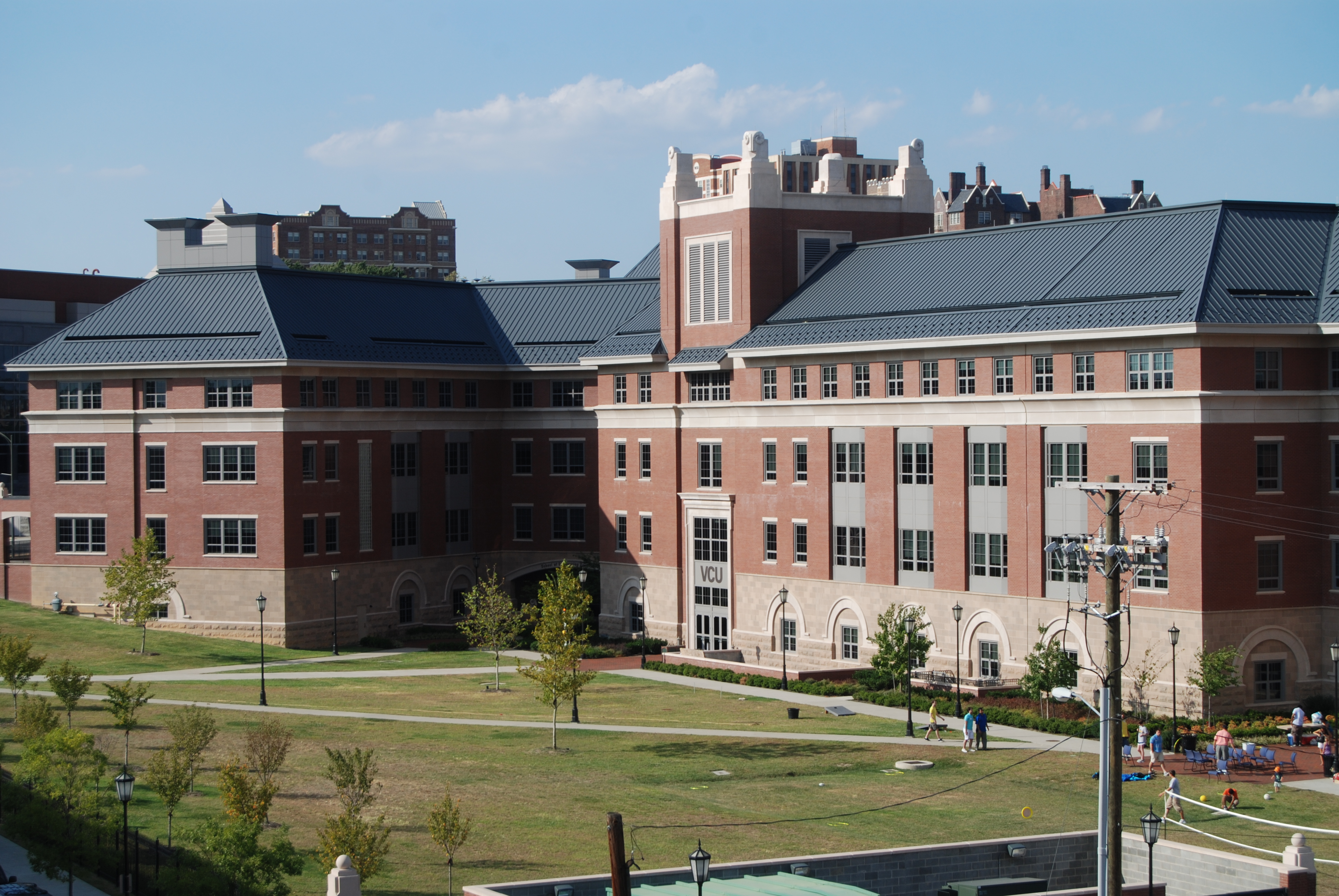 VCU Snead Hall by Jeff Auth